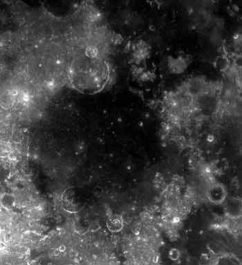 Mare Humorum is a small circular mare on the lunar nearside. It is about 275 miles across. The mountains surrounding Mare Humorum mark the edge of an old impact basin. This basin has been flooded and filled by mare lavas. These lavas also extend past the basin rim in several places. In the upper right are several such flows which extend northwest into southern Oceanus Procellarum. The rather large crater to the north of the mare is Gassendi. The crater on the southeastern rim of the basin is Doppelmayer. The light grey feature that protrudes into the mare from the southeast is Promontorium Kelvin.